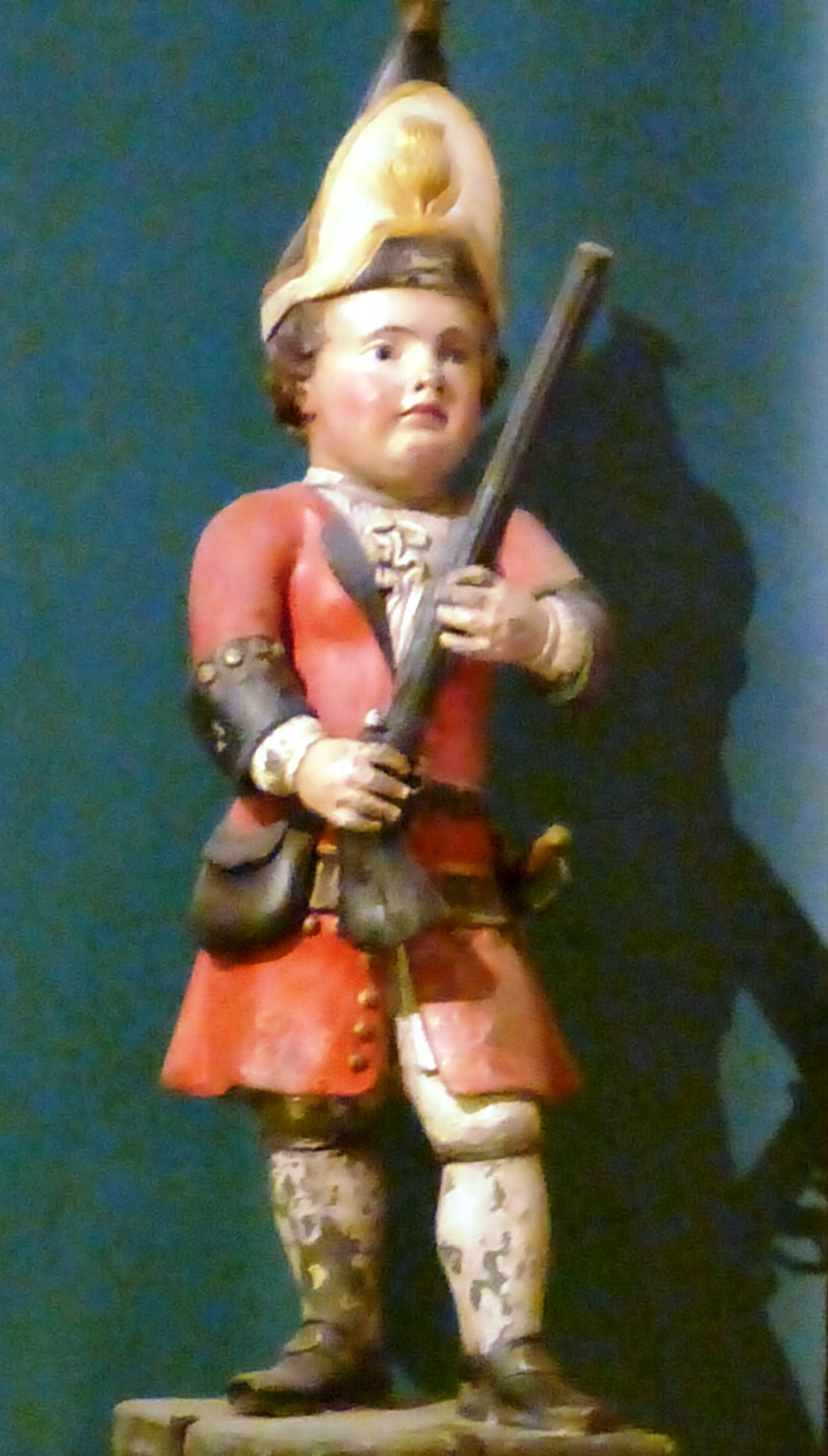 This cherubic wooden figure designed for comic effect is one of the earliest representations of a Scottish soldier in service with the British Army. It was one of several that decorated the 'Old Chelsea Bun-House', a London coffee-house close to the Royal Hospital, Chelsea, a home for discharged soldiers founded in the 1680s. The uniform is that of the Royal North British Fusiliers, an infantry regiment formed in 1678. The regiment's name reveals its Scottish identity, as does the figure's thistle cap badge . It is one of three such figures displayed in the Scottish National War Museum in Edinburgh Castle.